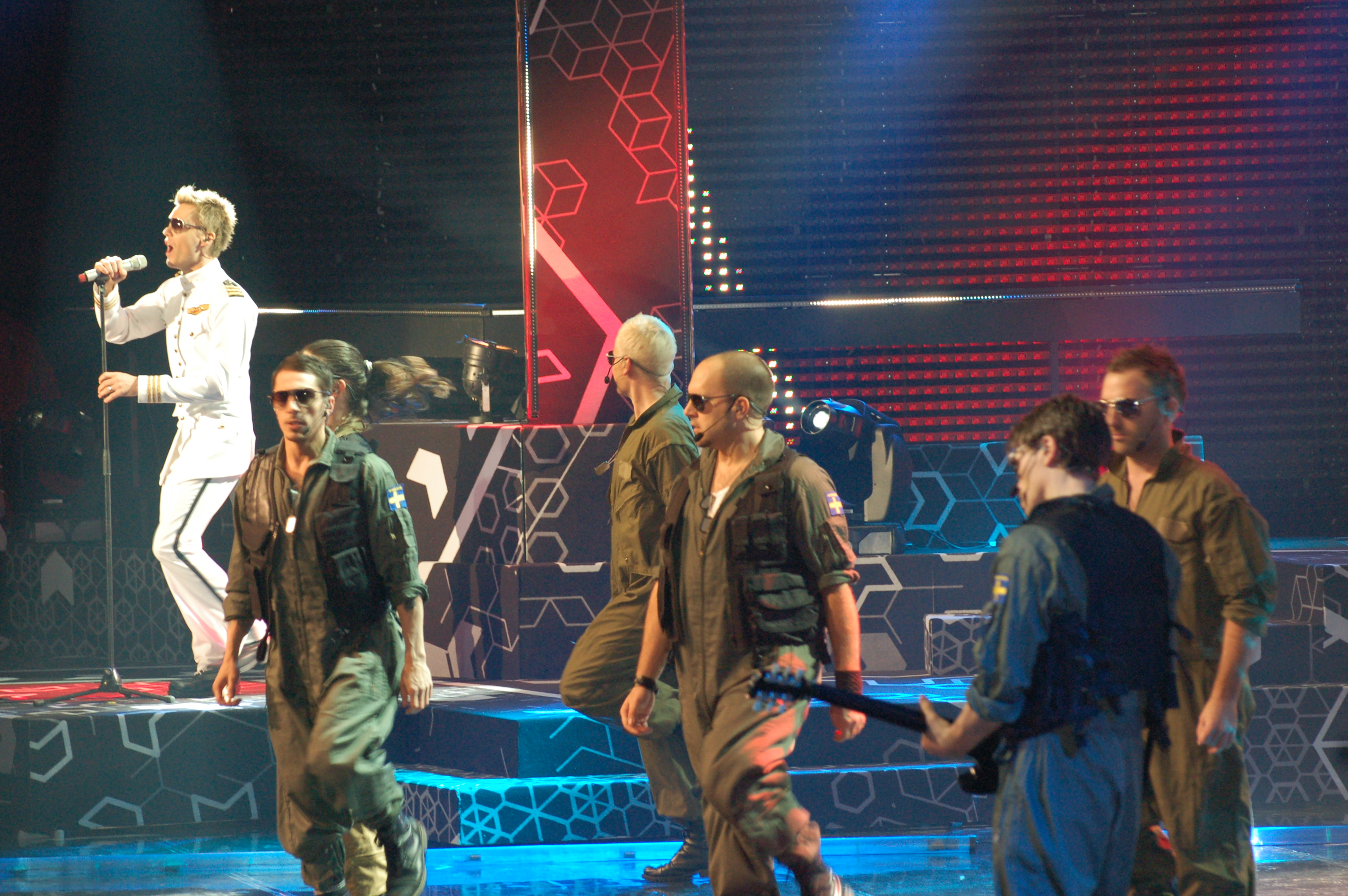 Melodifestivalen 2009, Norrköping Andra Chansen